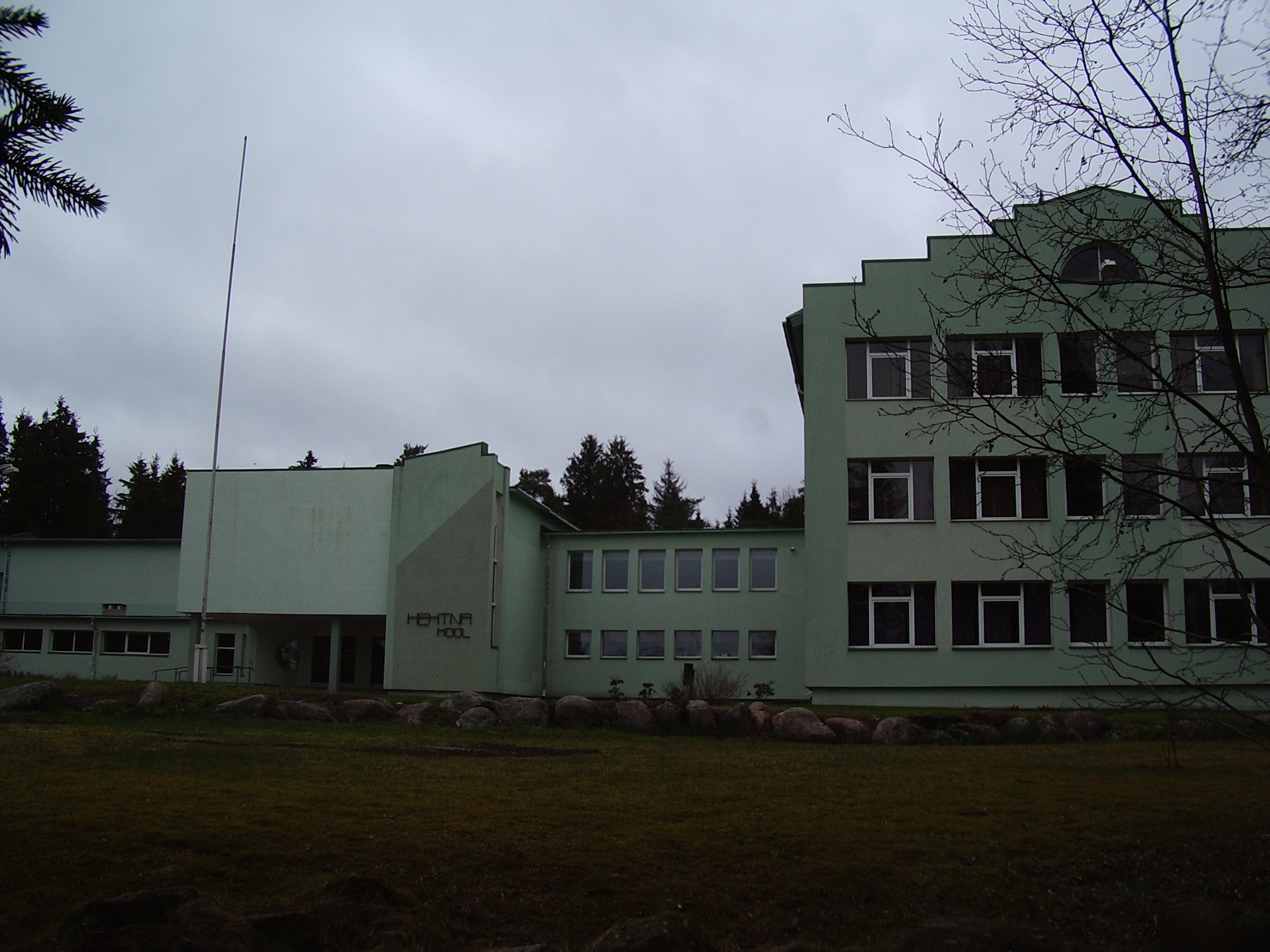 Kehtna Basic School in Rapla County, Estonia